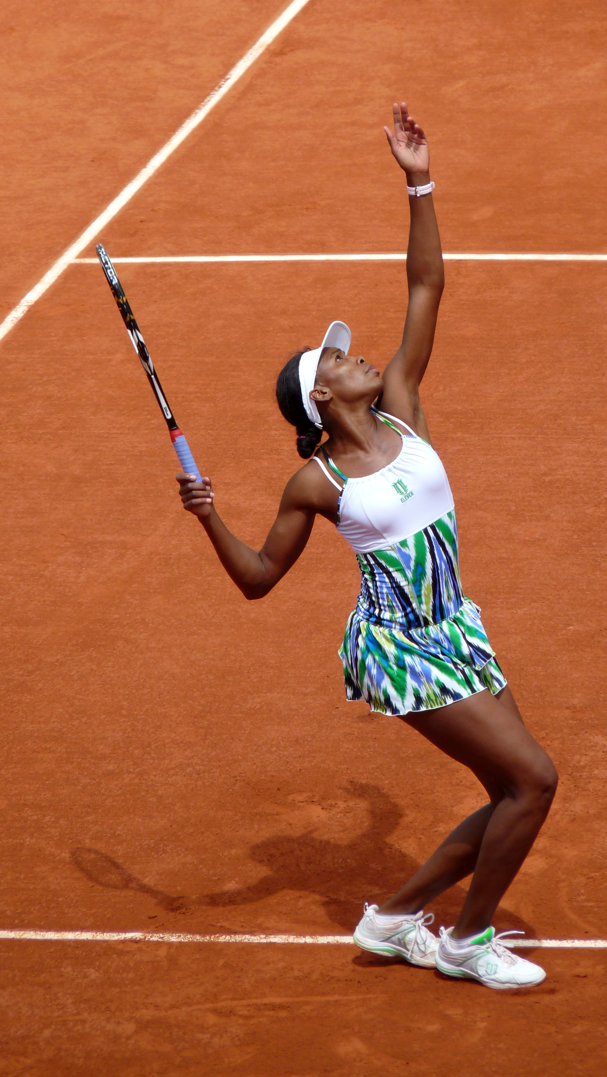 Venus Williams against Ágnes Szávay in the 2009 French Open third round